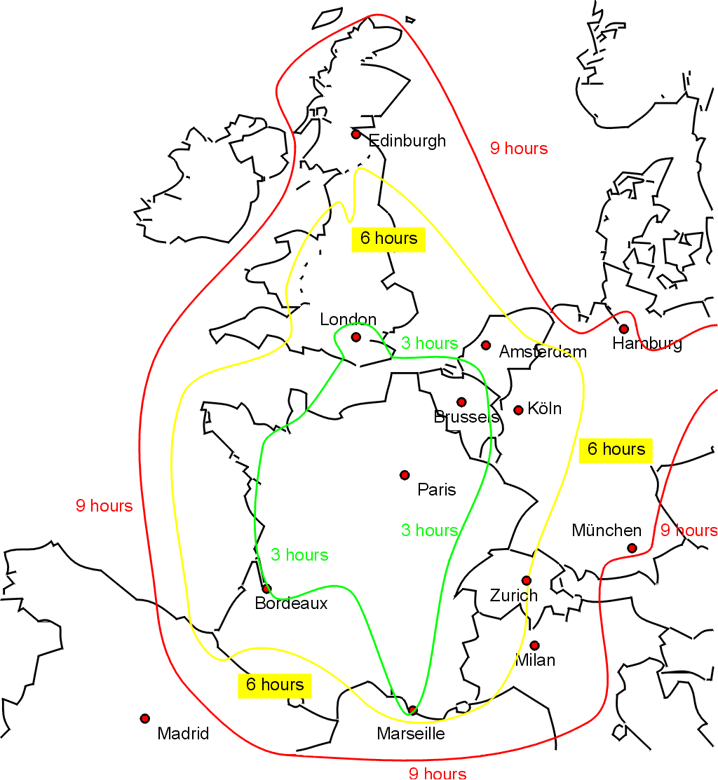 Sketch map showing approximate journey times on the train from Paris to the rest of western Europe. Drawn by Bob Tubbs, based on queries to the SNCF website.